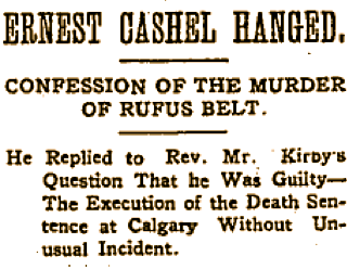 The Globe & Mail, 3 February 1904, reporting the execution of Ernest Cashel.